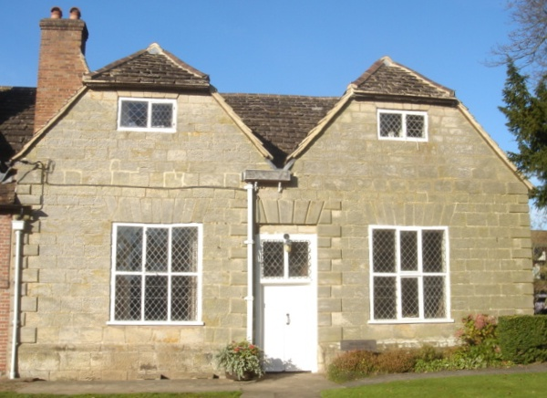 Friends' Meeting House, Langley Lane, Ifield, Crawley, West Sussex, England. Built in 1676, this is one of the oldest Religious Society of Friends (Quaker) places of worship still in existence.